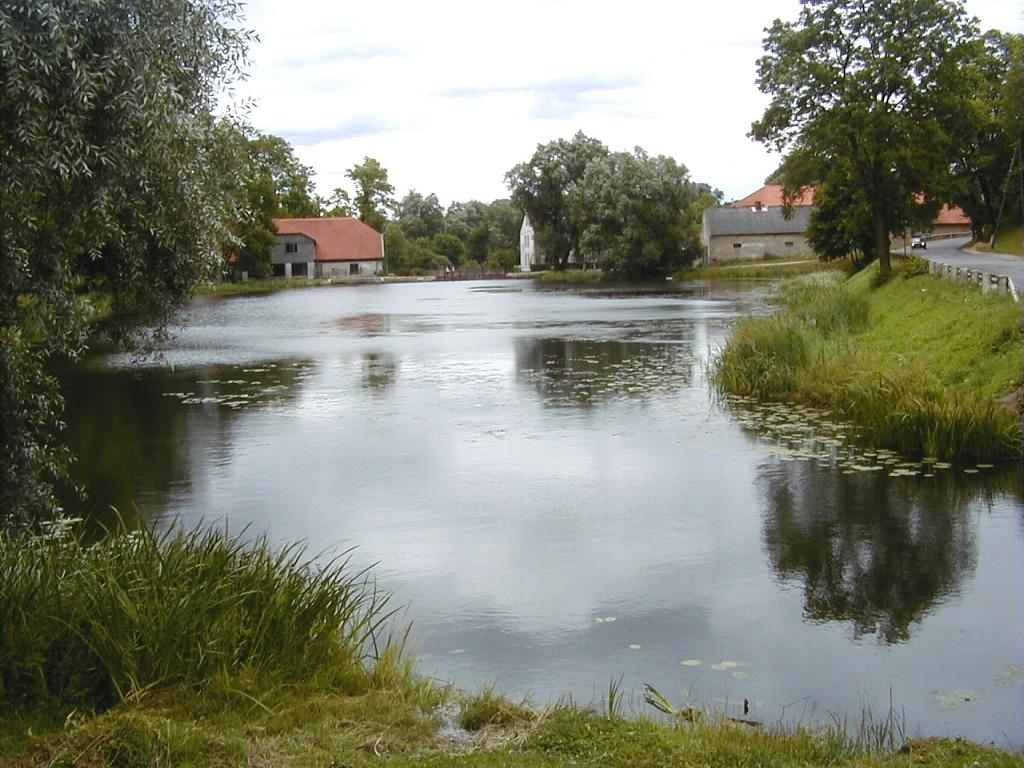 Tebra River in Aizpute (view from Liepājas street)